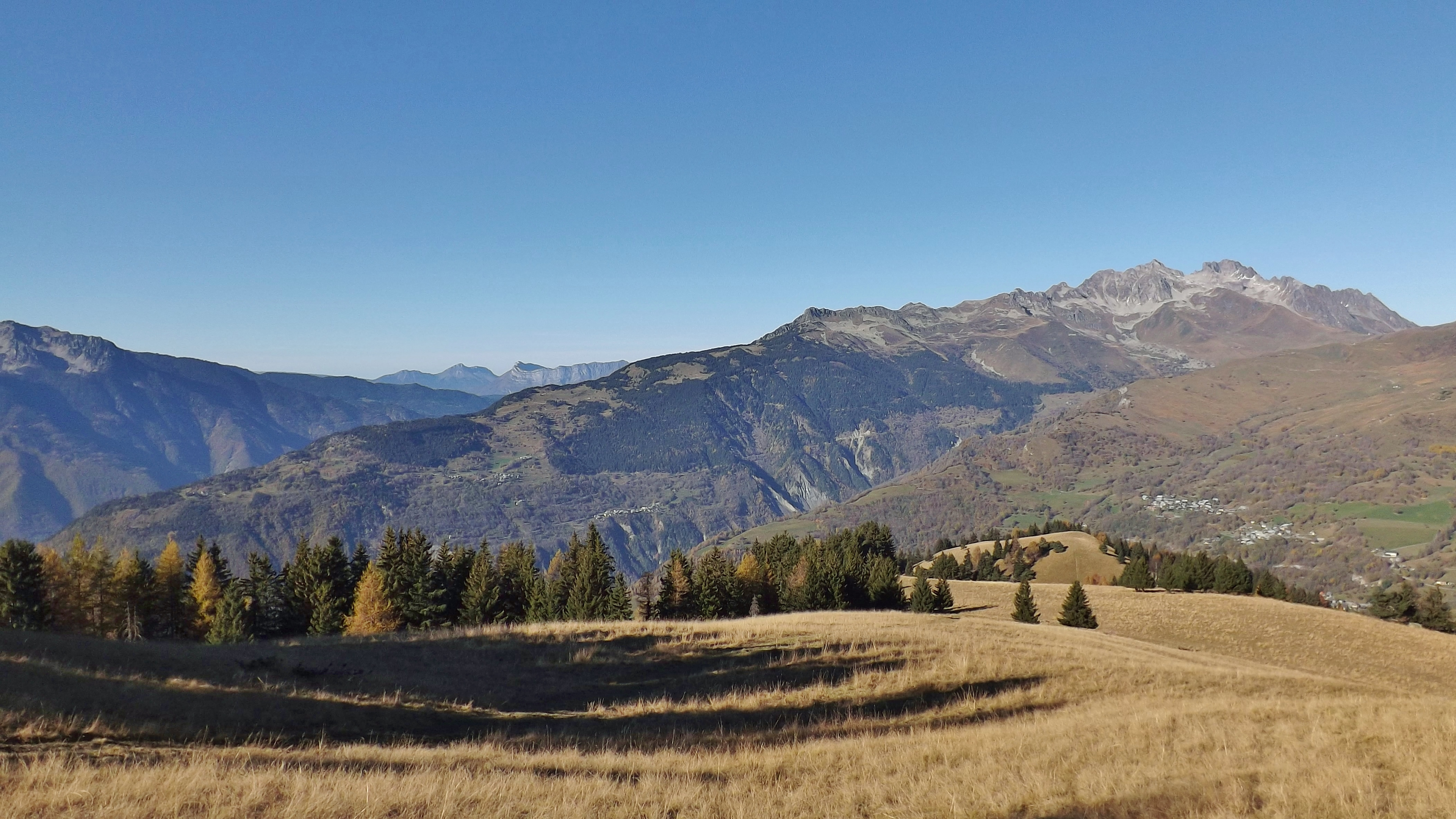 Panoramic sight, from the heights of Montpascal, of the Lauzière mountains, in Savoie.